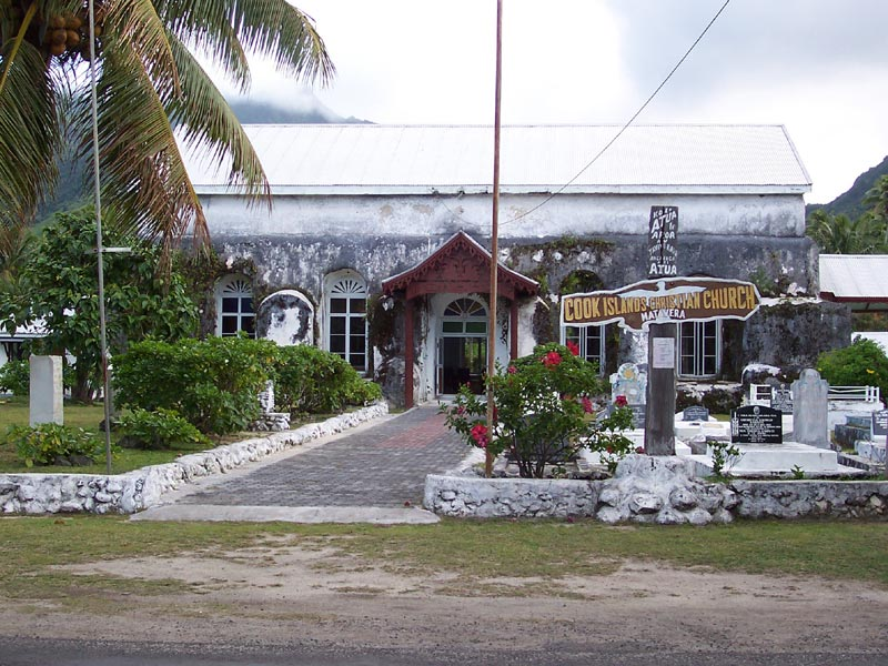 A Christian Church in Rarotonga. Taken by my parents. Released under GFDL.